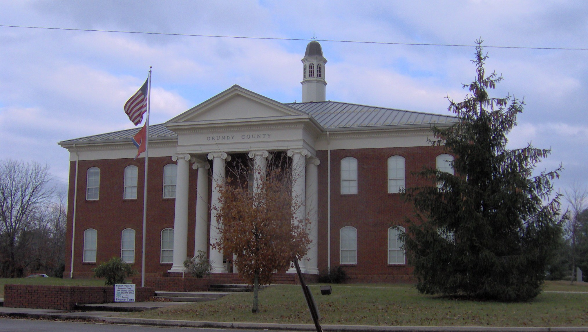 Grundy County Courthouse in Altamont, Tennessee, in the southeastern United States.